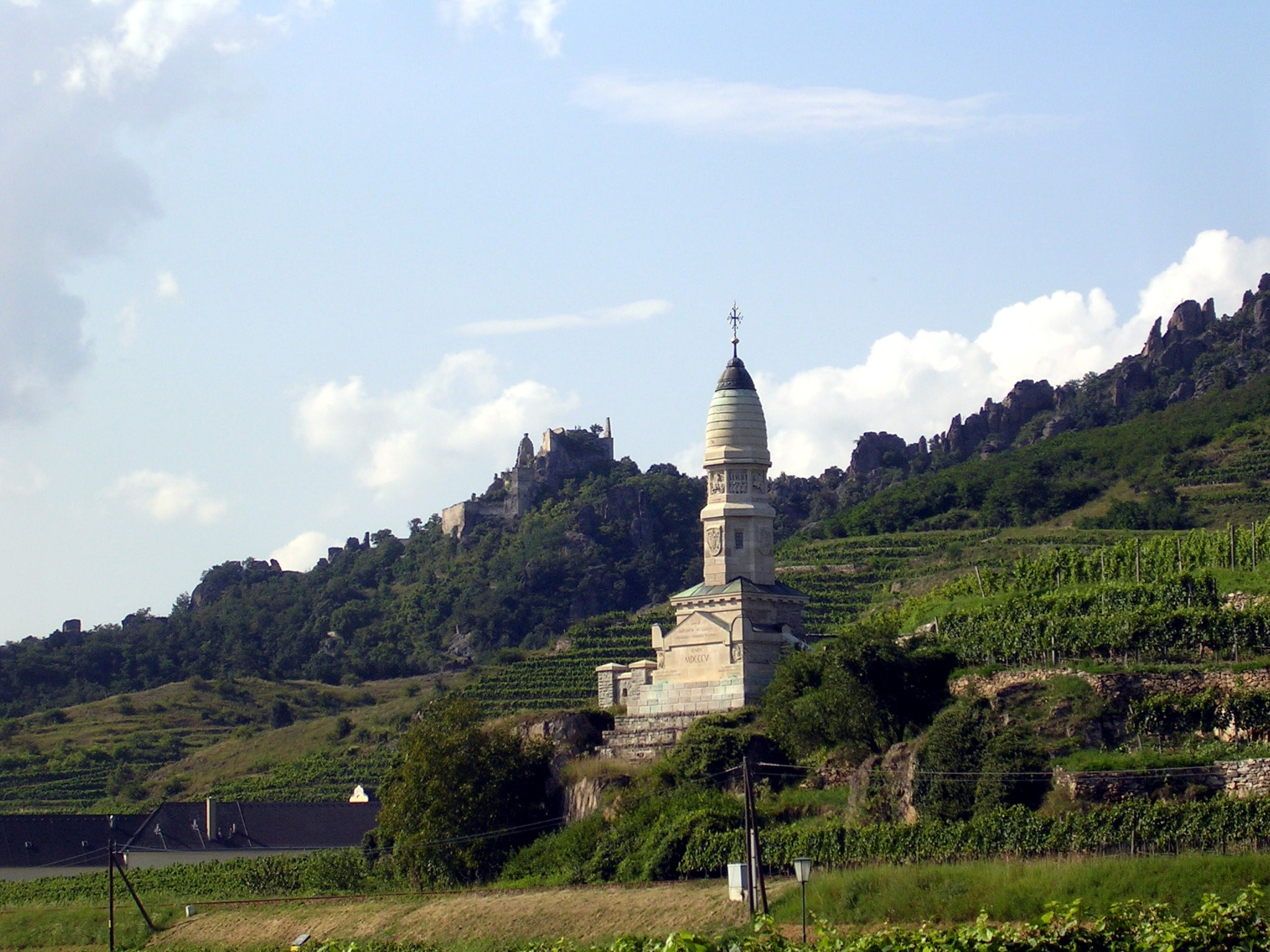 Battlefield Memorial at Loiben, near Duerenstein: this monument was erected in 1905; Austria permits freedom of panorama to architectural works.